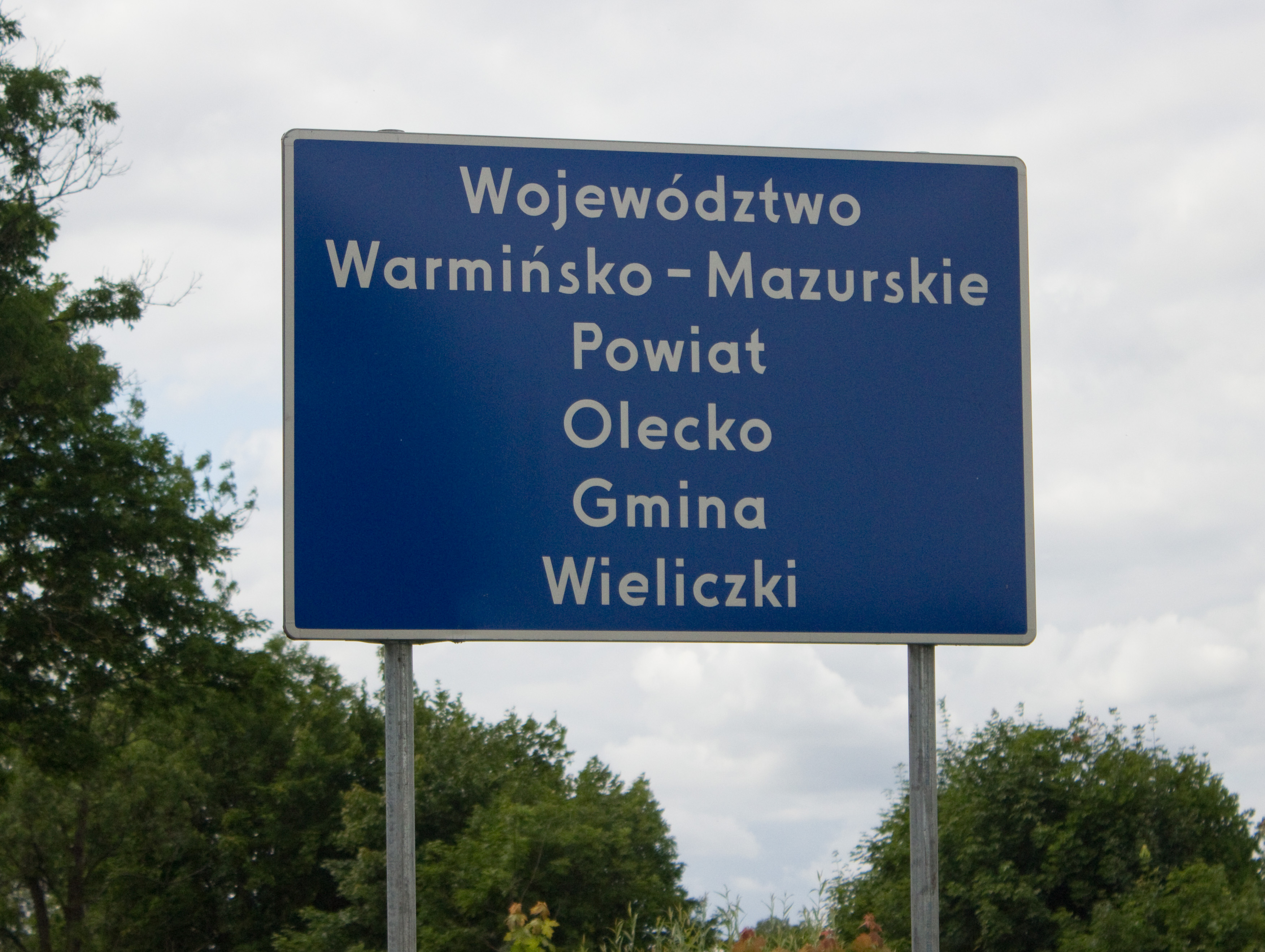 Cimochy, gmina Wieliczki, powiat olecki, Warmian-Masurian Voivodeship